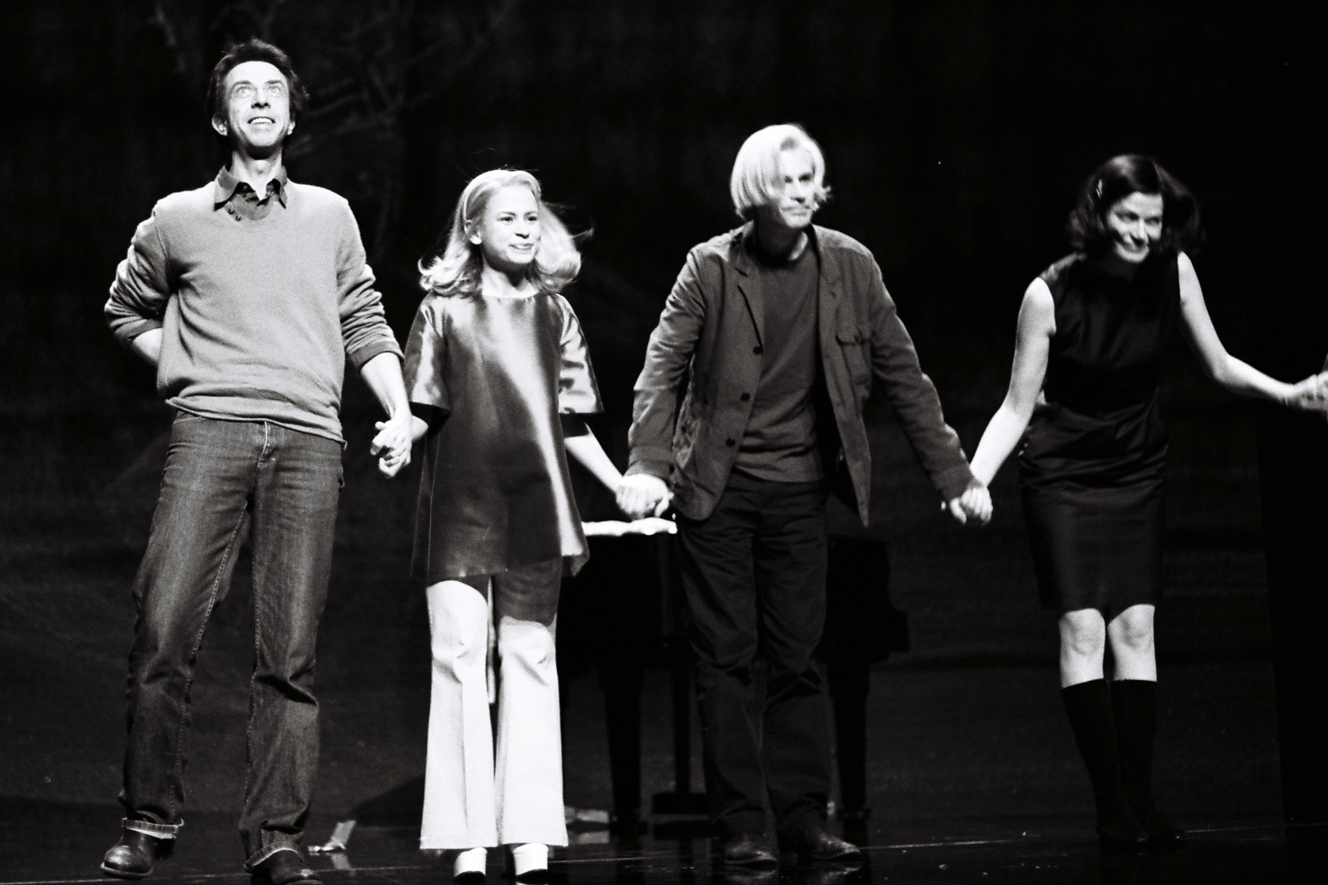 Martin crimp at the end of his play the city in Paris